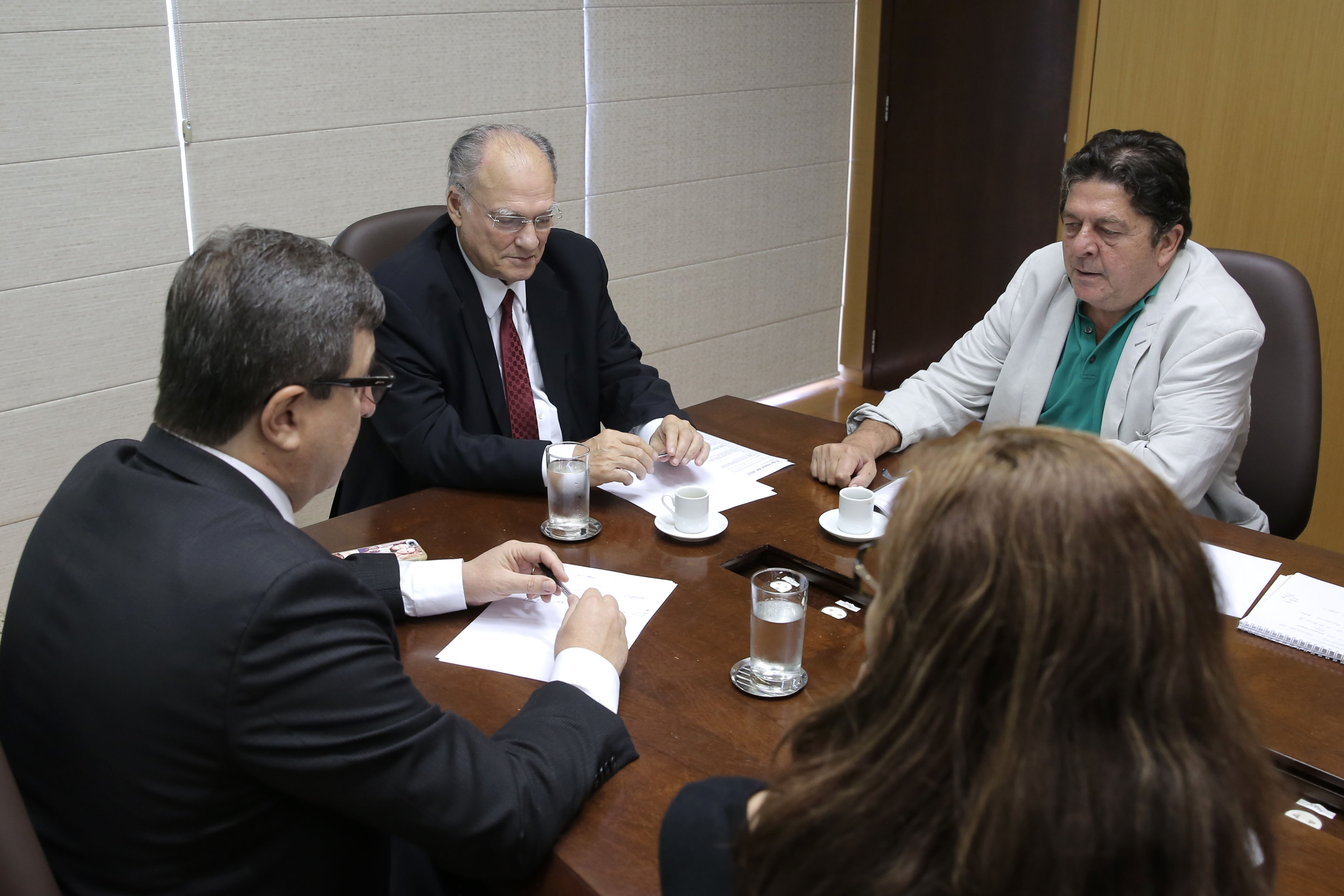 Minister Roberto Freire receives Deputy Danilo Fortes and actor Stepan Nercessian